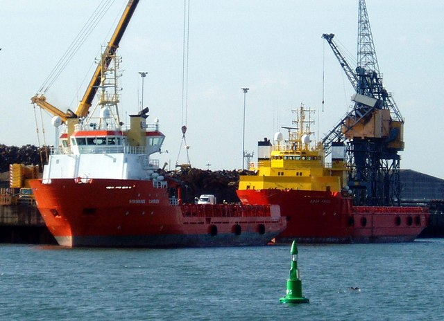 Hartlepool Docks. Offshore industry supply vessels berthed in Hartlepool Docks.